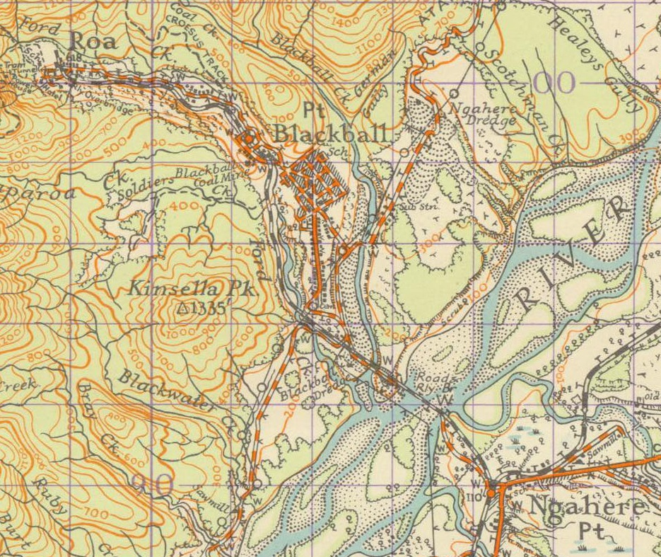 1944 one inch to one mile map sheet S44. Source: Land Information New Zealand (LINZ) and licensed by LINZ for re-use under the Creative Commons Attribution 3.0 New Zealand licence - See more at